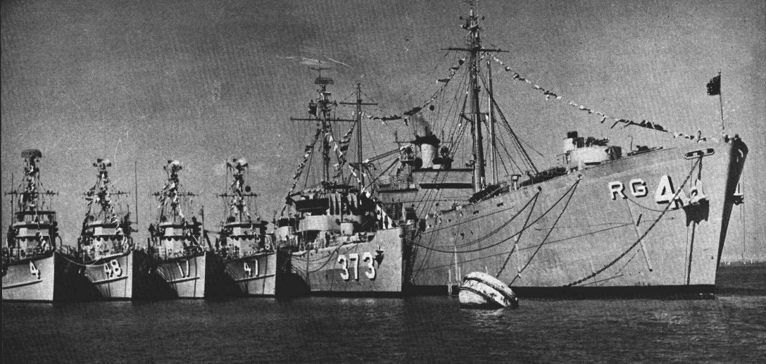 The U.S. Navy internal combustion engine repair ship USS Tutuila (ARG-4) at anchor circa 1956-57, probably at Charleston, South Carolina (USA). The following ships are alongside (from outboard to inboard): USS Cardinal (MSC(O)-4), USS Lapwing (MSC(O)-48), USS Hawk (MSC(O)-17), USS Fulmer (MSC(O)-47), USS Peregrine (MSF-373).